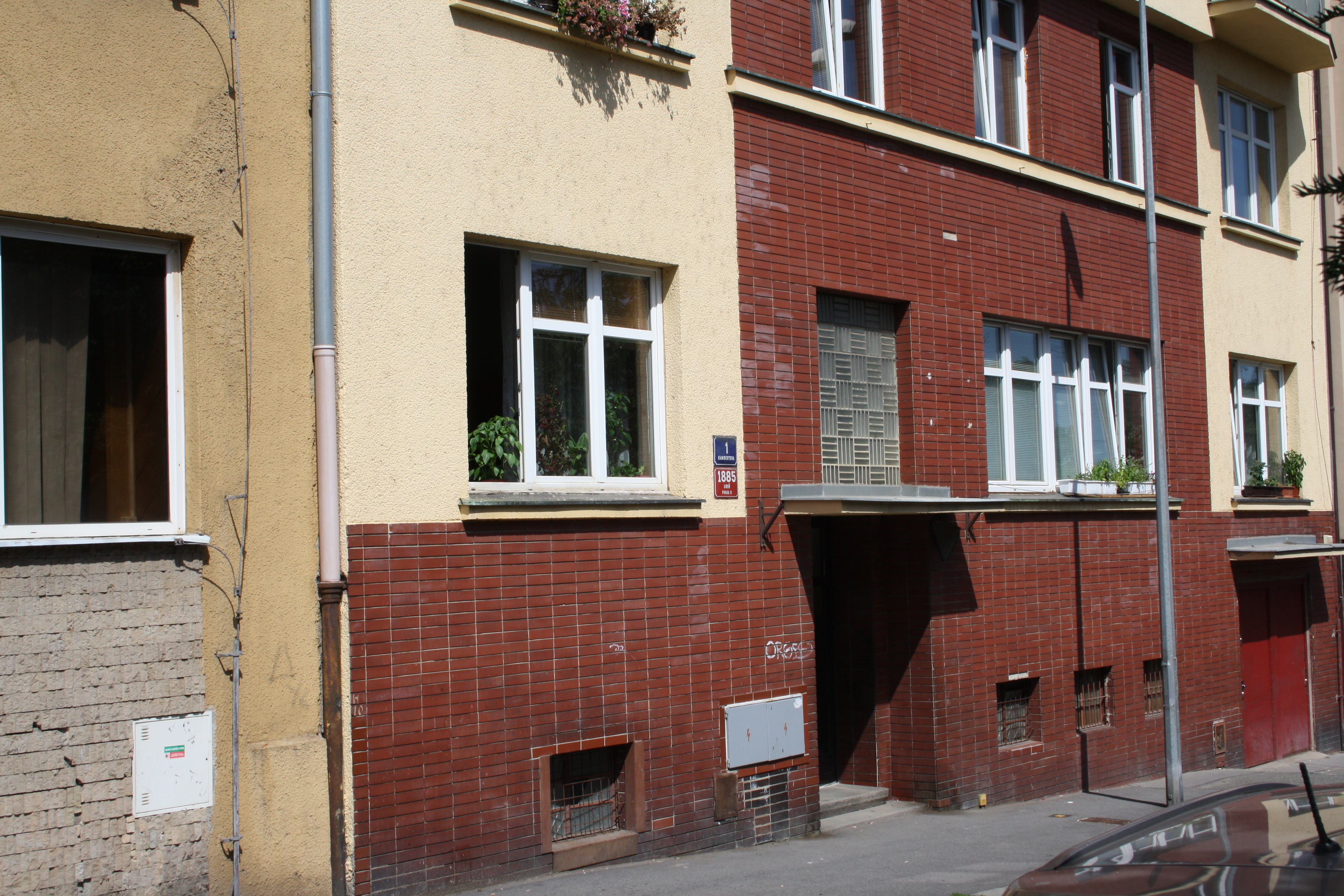 Kandertova 1885/1, Prague, Liben, Czech republic